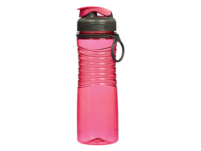 Hydrate on-the-go, in style with the Rubbermaid Hydration bottle! These colorful bottles are BPA-free and include a finger loop for easy carrying. They are made of Tritan material which resists stains and odors and are also dishwasher safe. Available in a variety of stylish colors BPA-free Made of Tritan material that resists stains and odors Chug cap is interchangeable on all Rubbermaid water bottles Finger loop for easy carrying Dishwasher and freezer safe